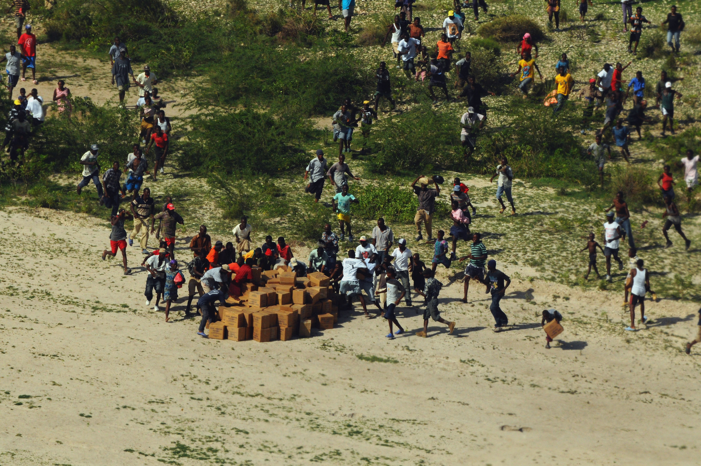 Haitian civilians rush to retrieve high-nutrition meals donated by Project Handclasp and Kids Against Hunger that were delivered to them as a humanitarian assistance project by crewmen embarked aboard the amphibious assault ship USS Kearsarge. America's contributions to relief efforts are being coordinated by the United States Agency for International Development and its Office of U.S. Foreign Disaster Assistance.